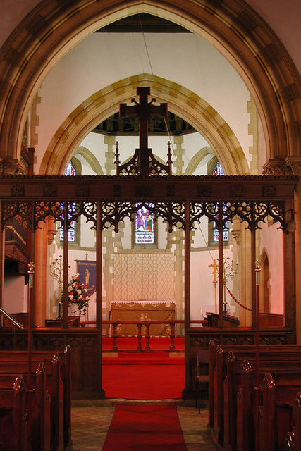 Church of England parish church of St John the Evangelist, Moggerhanger, Bedfordshire: rood screen and apsidal chancel